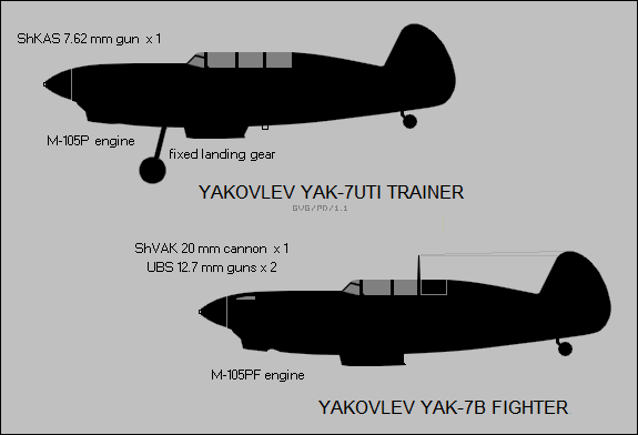 Side-view silhouettes of Yakovlev Yak-7 variants